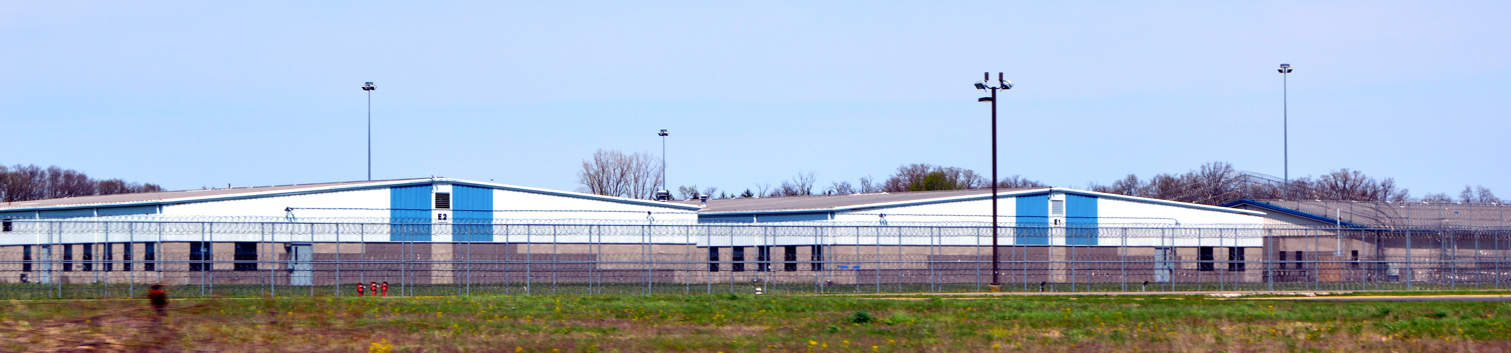 Buildings at the North Central Correctional Complex, located at 670 Marion-Williamsport Road in northern Marion, Ohio, United States.